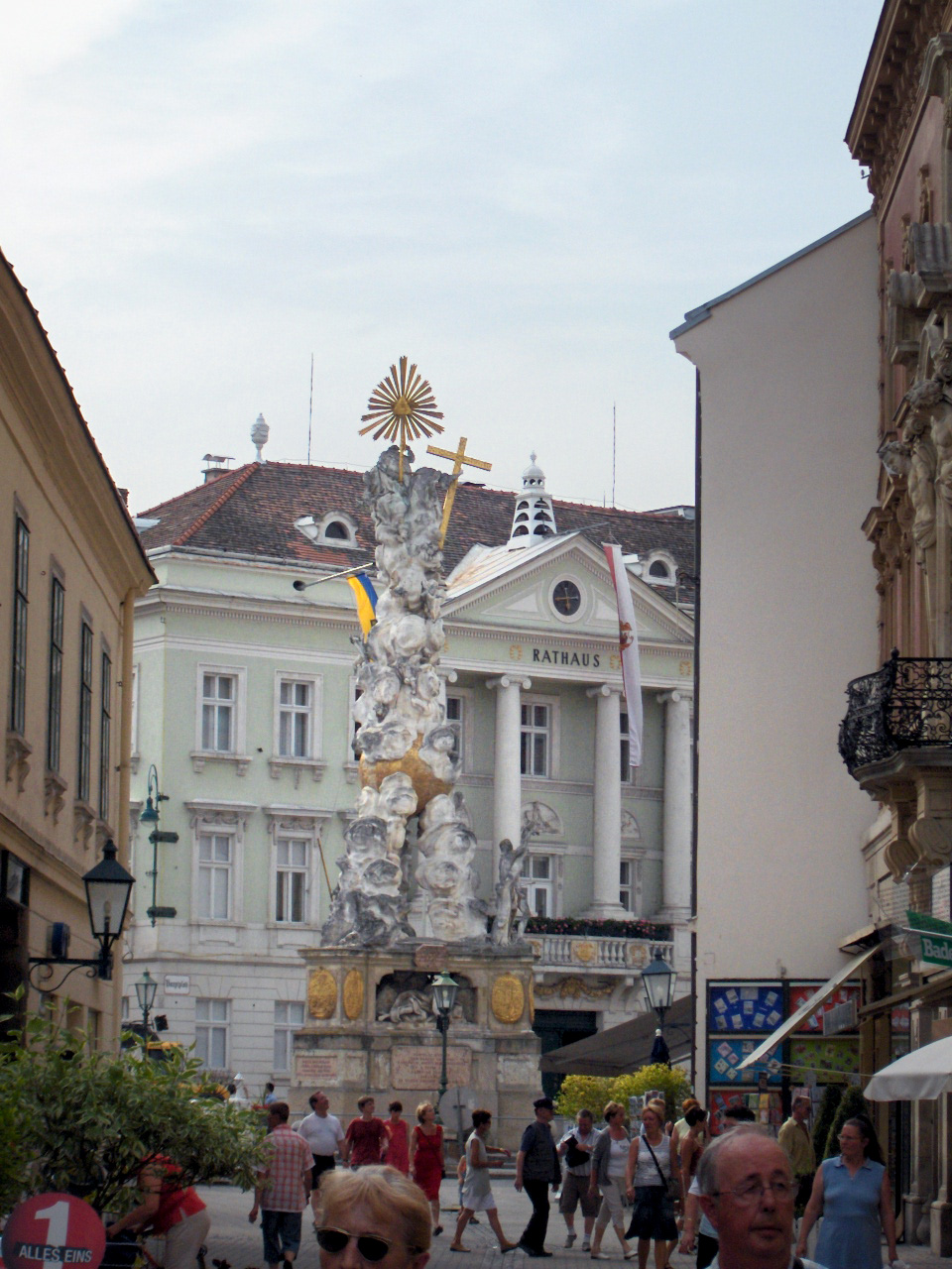 City hall and Trinity column; Baden bei Wien, Austria